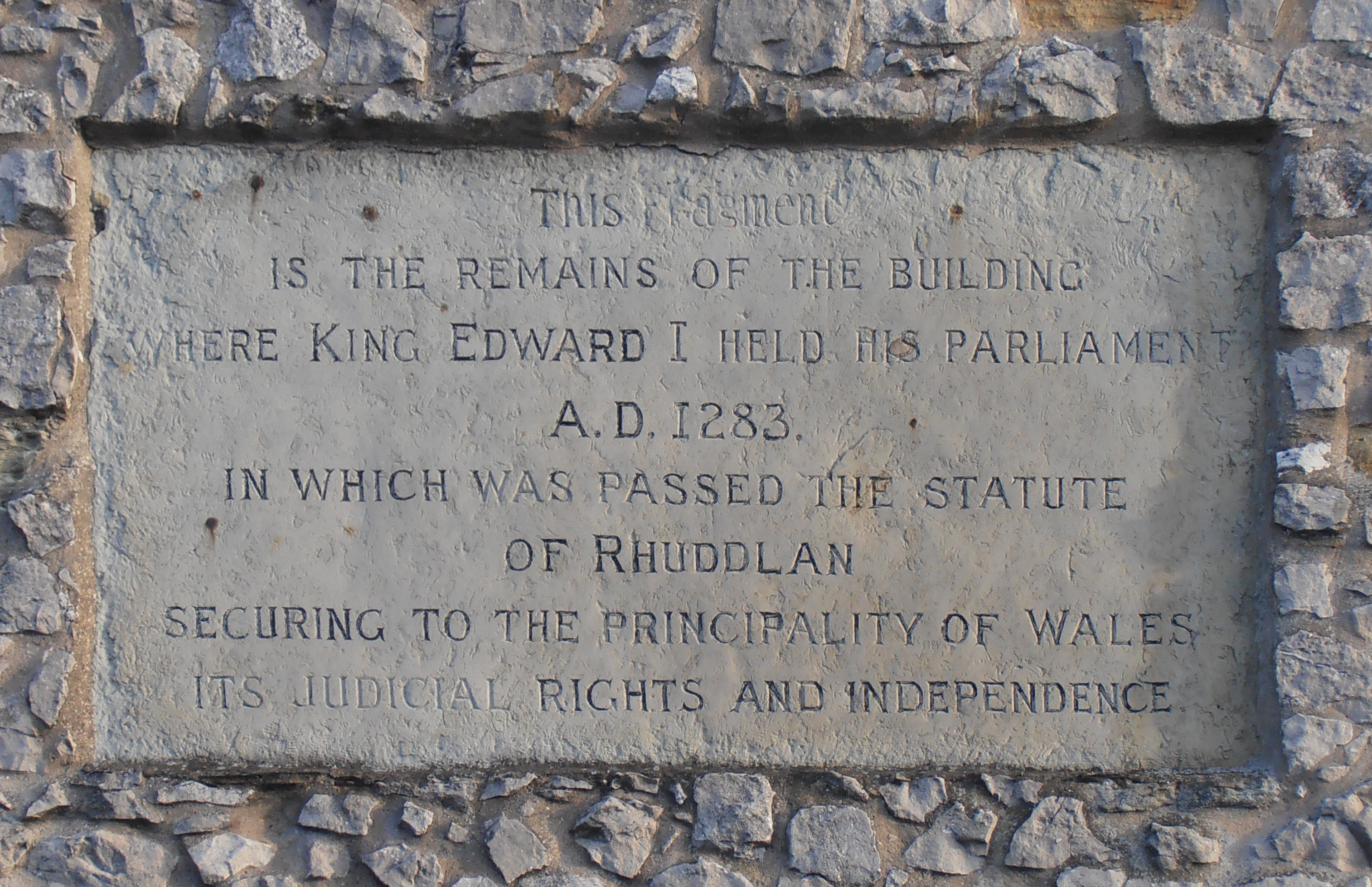 Carved stone plaque on the gable wall of the Parliament Building that commemorates the "Statute of Wales,” some times known as the "Statute of Rhuddlan.” Inscription: "This Fragment is the remains of the building where Edward I held his Parliament A.D. 1283 in which was passed the Statute of Rhuddlan securing to the Principality of Wales its judicial rights and independence."